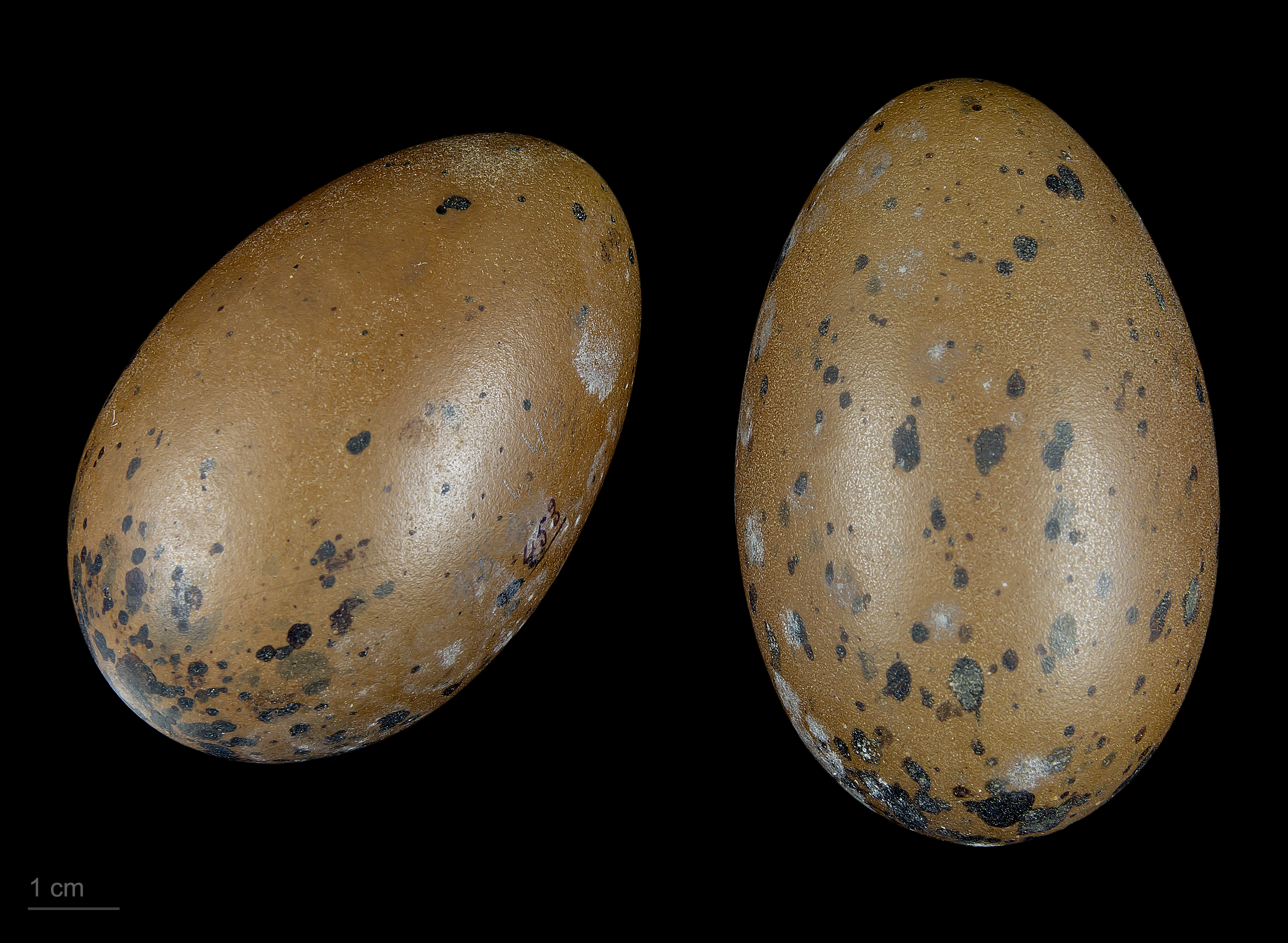 Eggs of red-throated diver Two specimens of the same spawn ; collection of Jacques Perrin de Brichambaut.